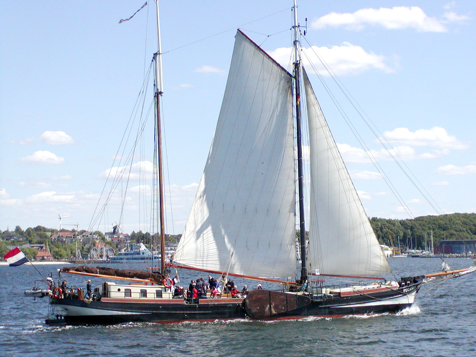 Klipperbarge Pegasus at Kiel Week 2008